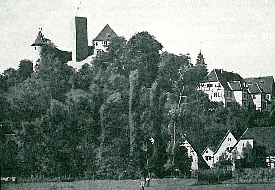 historical view of Neidenstein